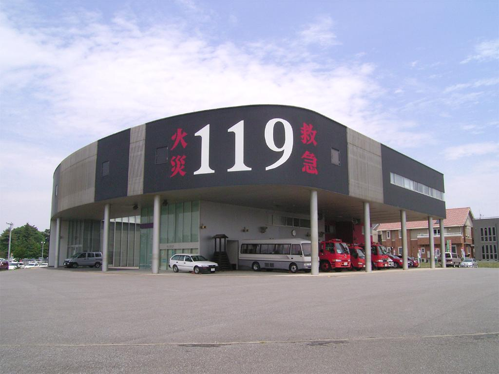 Fire Station